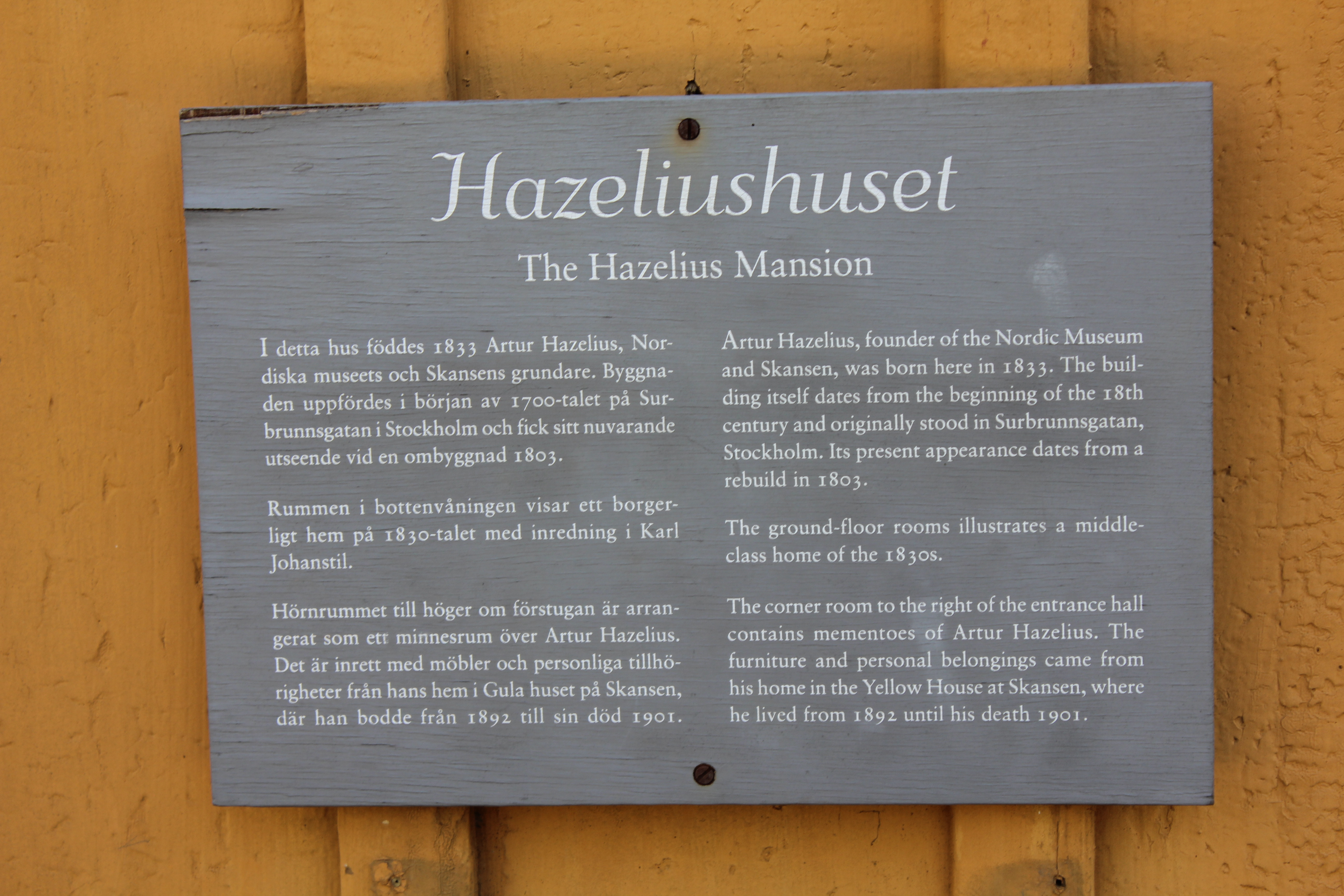 The Hazelius mansion sign at open-air museum Skansen i Stockholm: Artur Hazelius, founder of the Nordic Museum and Skansen, was born here in 1833. The building itself dates from the beginning of the 18th century and originally stood in Surbrunnsgatan, Stockholm. Its present appearance dates from a rebuild in 1830s. The ground-floor rooms illustrates a middle-class home of the 1830s. The corner room to the right of the entrance hall contains mementoes of Artur Hazelius. The furniture and personal belongings came from his home in the Yellow House at Skansen, where he lived from 1892 until his death 1901.